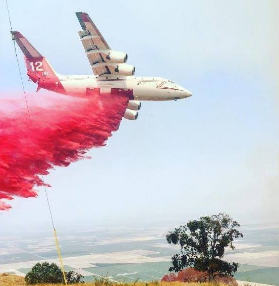 Per Kern County Fire Department #RangeFire [update] 6 miles east of Arvin (KernCo) now 450 acres. Precautionary evacs in progress. BAe-146 aircraft, operated by Neptune Aviation.